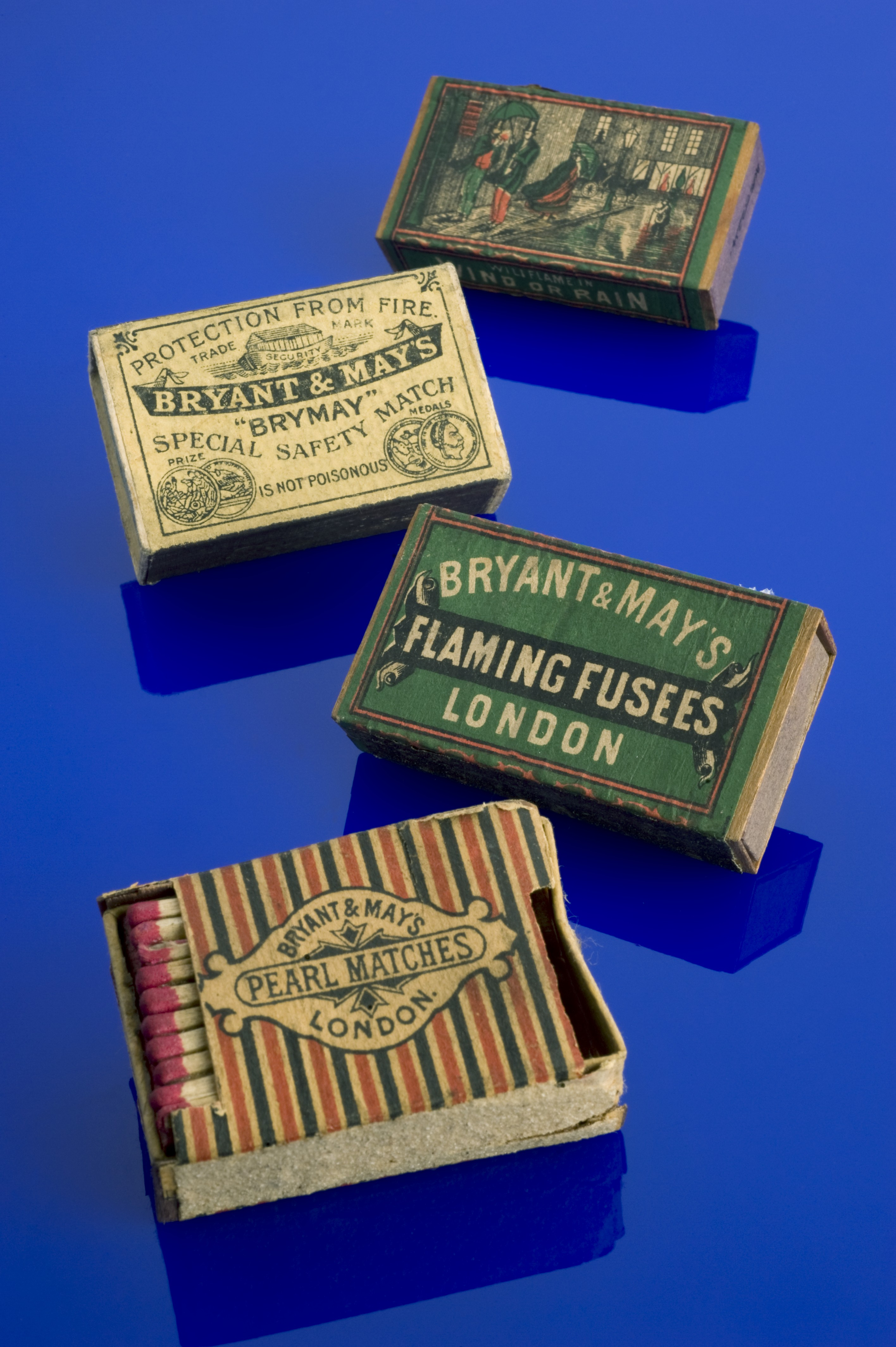 Match-making was a particularly dangerous job in the 1800s. Workers – mainly women – employed by companies such as Bryant & May to make matches commonly experienced a condition known as phossy jaw. This was caused by poisoning from the yellow phosphorous used in the head of the match. Phossy jaw was a terribly disfiguring and sometimes fatal condition. Eventually, a combination of this health danger, poor pay and long hours led to the formation of a trade union for the workers. The Match Girls Strike of 1888, led by social activist Annie Besant (1847-1933), was a landmark industrial action and led to better pay. In 1901, Bryant & May finally stopped using yellow phosphorous in their matches. maker: Bryant and May Place made: Bow, Tower Hamlets, London, Greater London, England, United Kingdom Wellcome Images Keywords: match box; phossy jaw